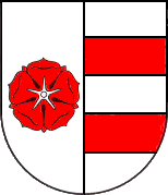 Coat of arms of Dolný Kubín, Slovakia